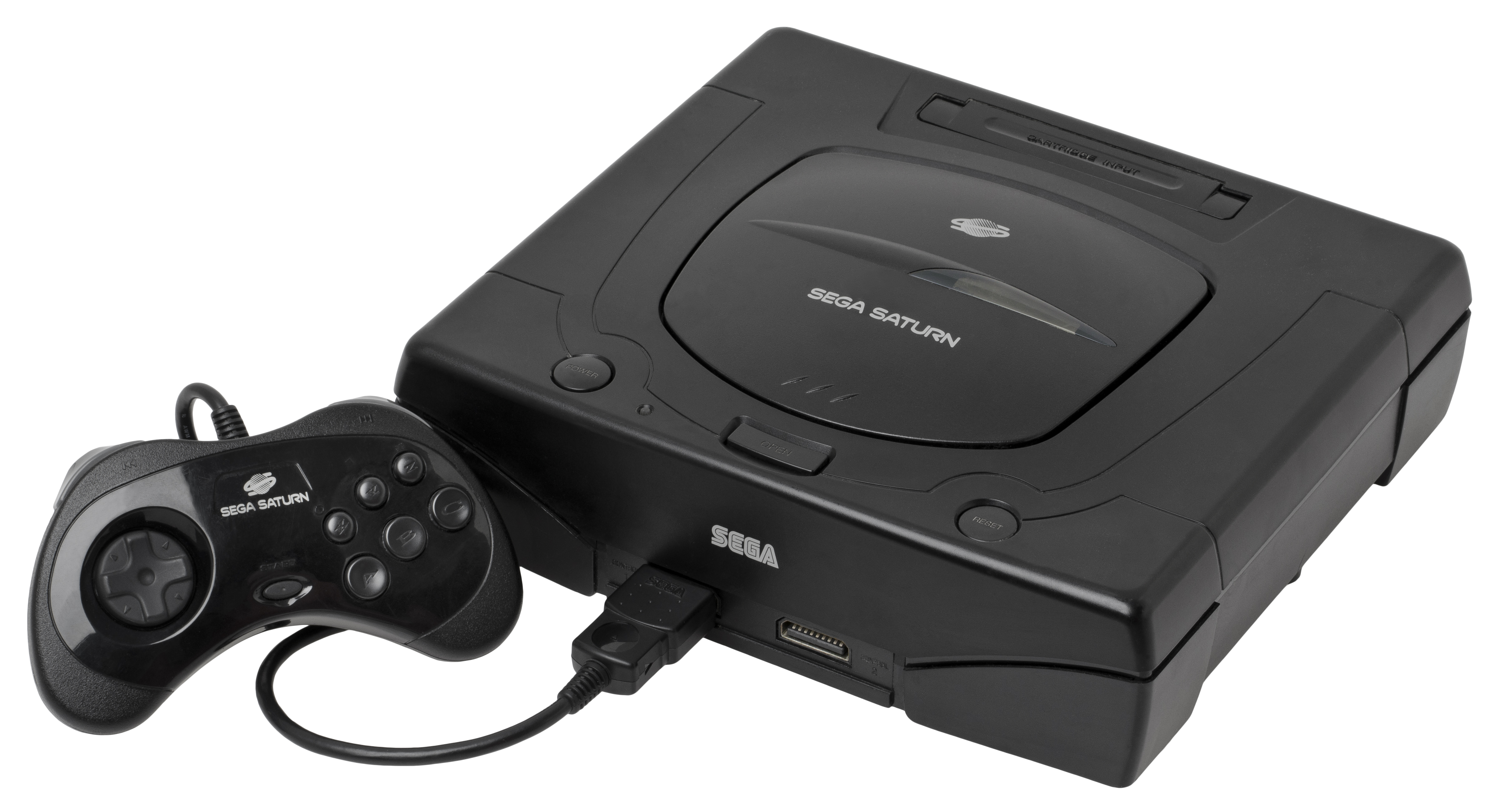 A US Sega Saturn console, shown with type 2 controller.